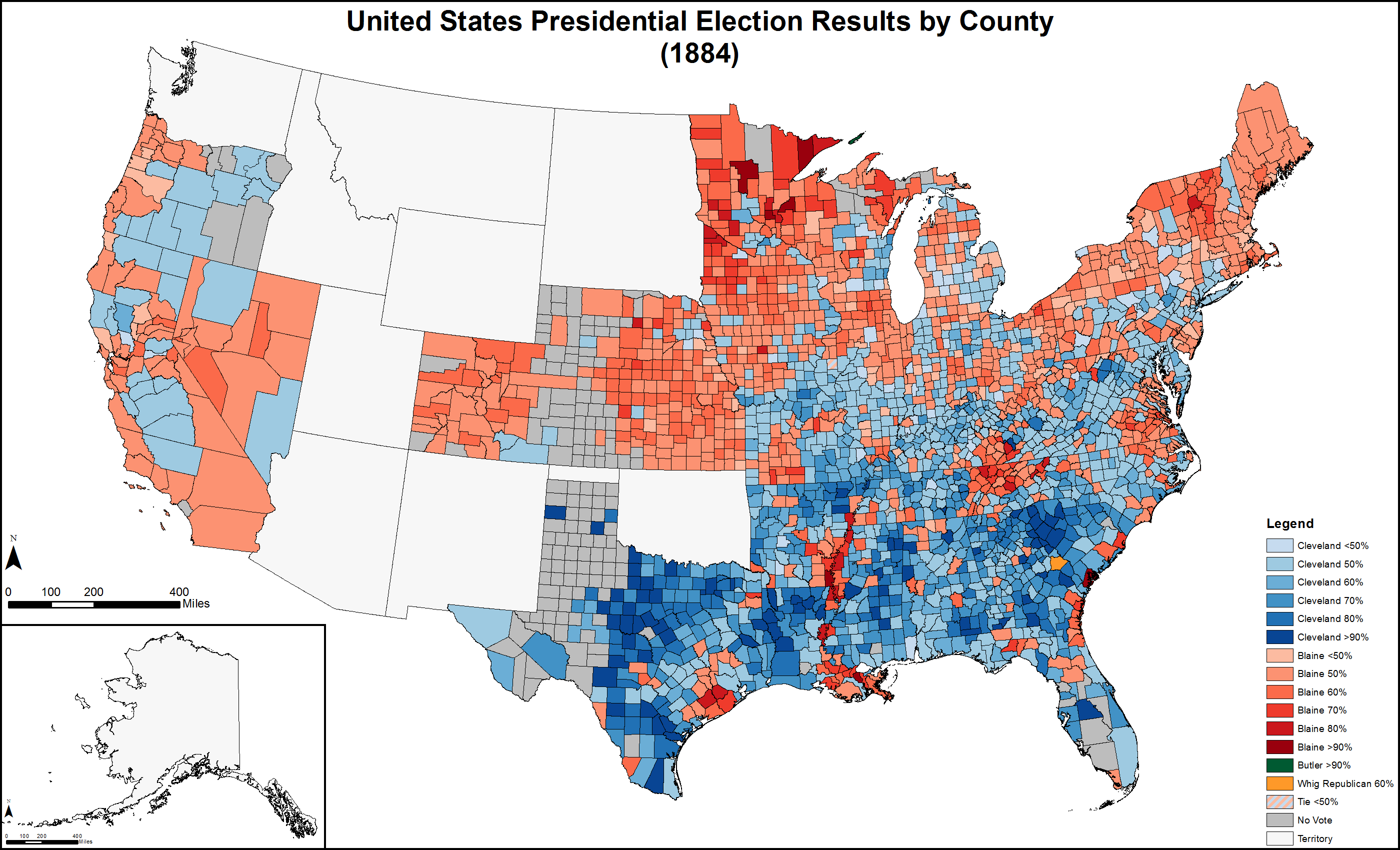 Presidential election results by county (1884). Colors based on Colorbrewer 2.0.